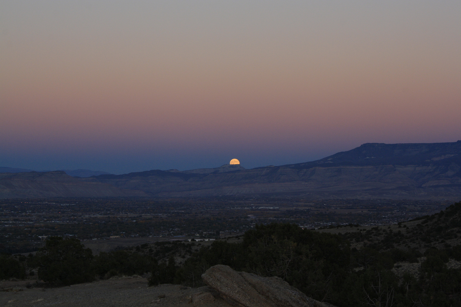 Grand Junction, CO at dusk. Oct. 29, 2012.